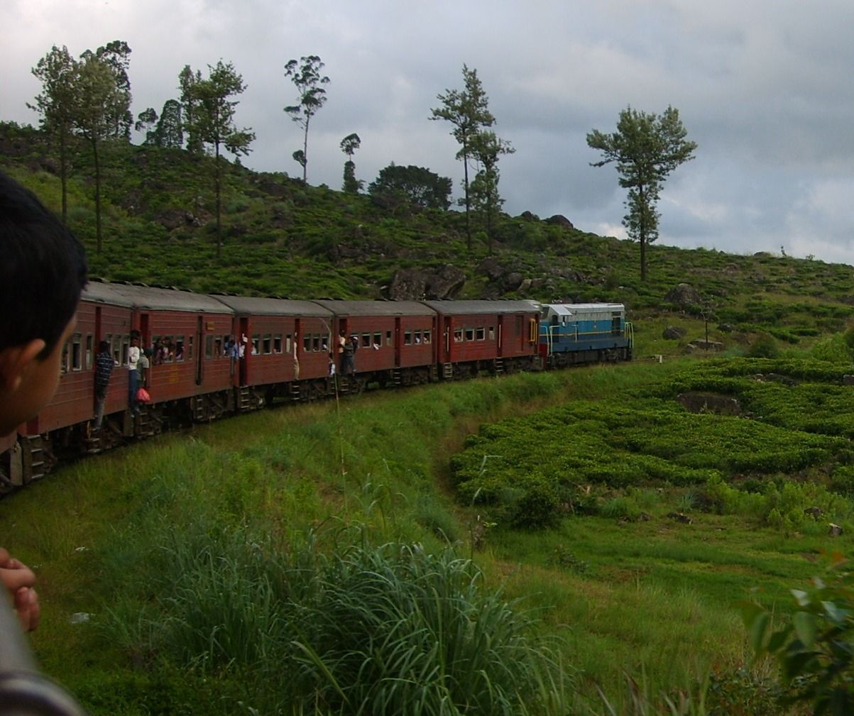 The Udarata Menike train on the Colombo–Badulla rail road in Sri Lanka.